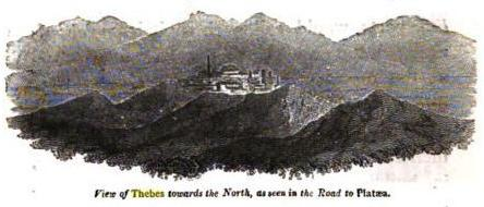 Illustration from Travels in Various Countries of Europe, Asia and Africa